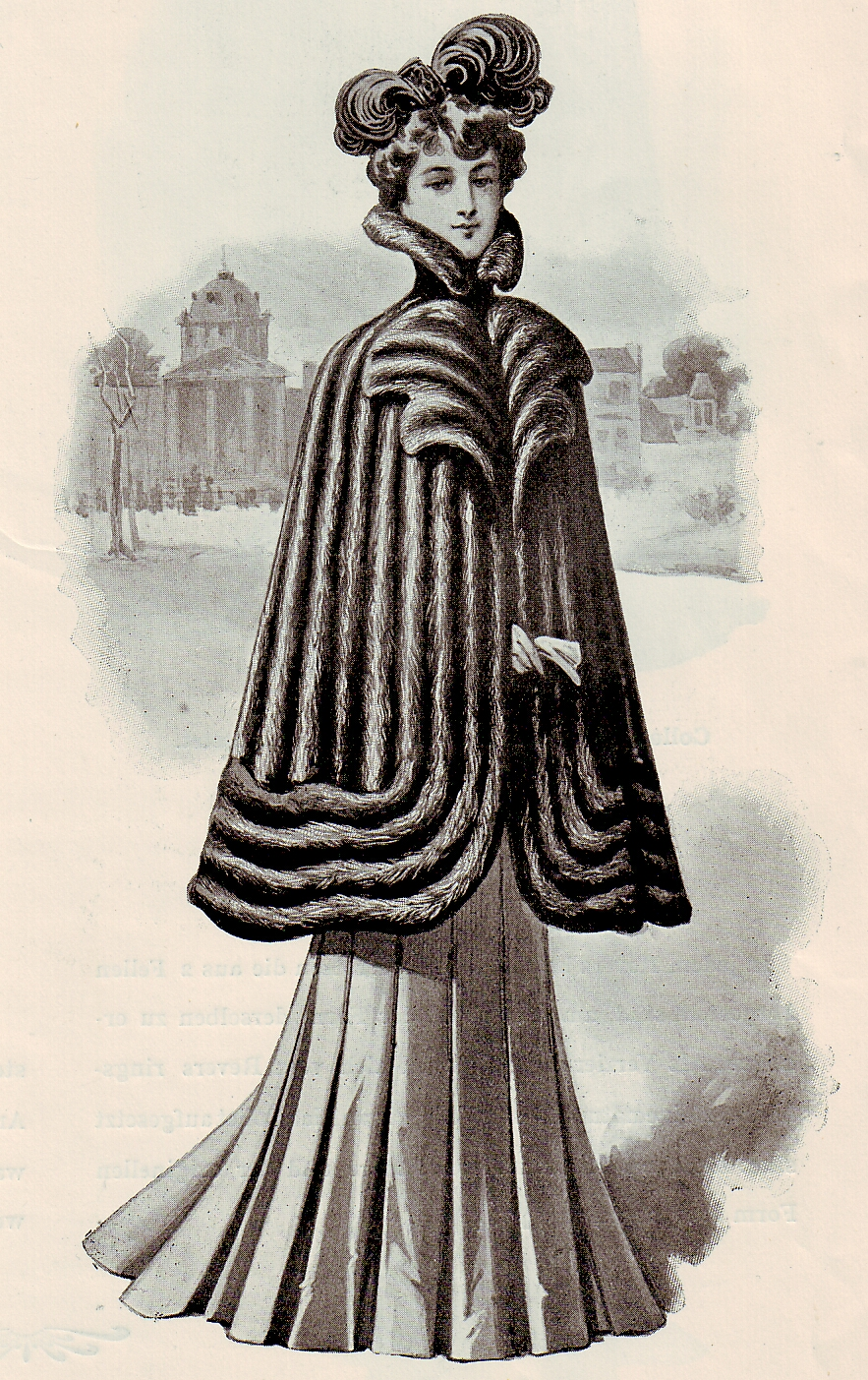 Mink cape